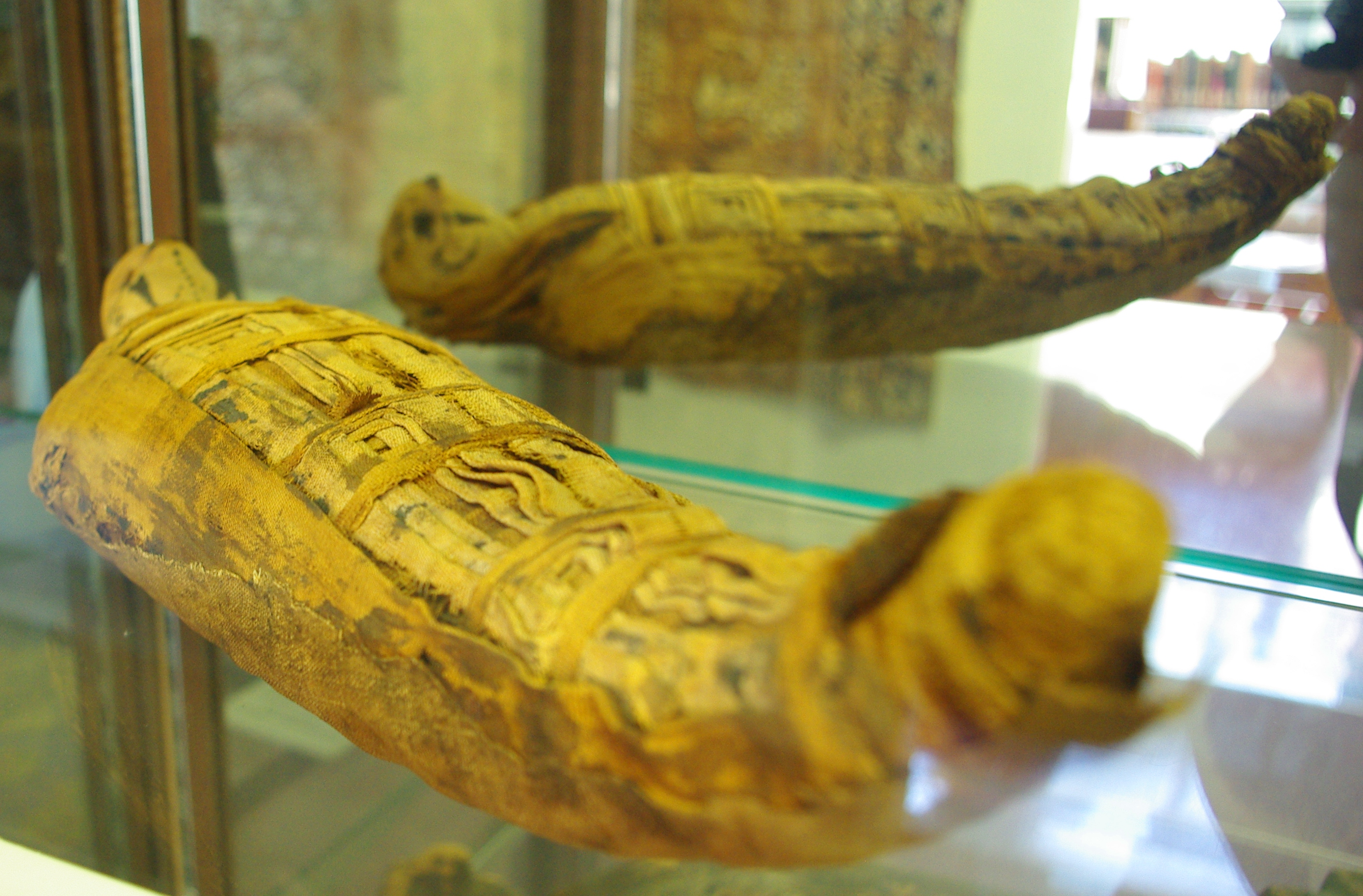 Prewitt-Allen Archaeological Museum at Corban College in Salem, Oregon, USA. Falcon mummy.